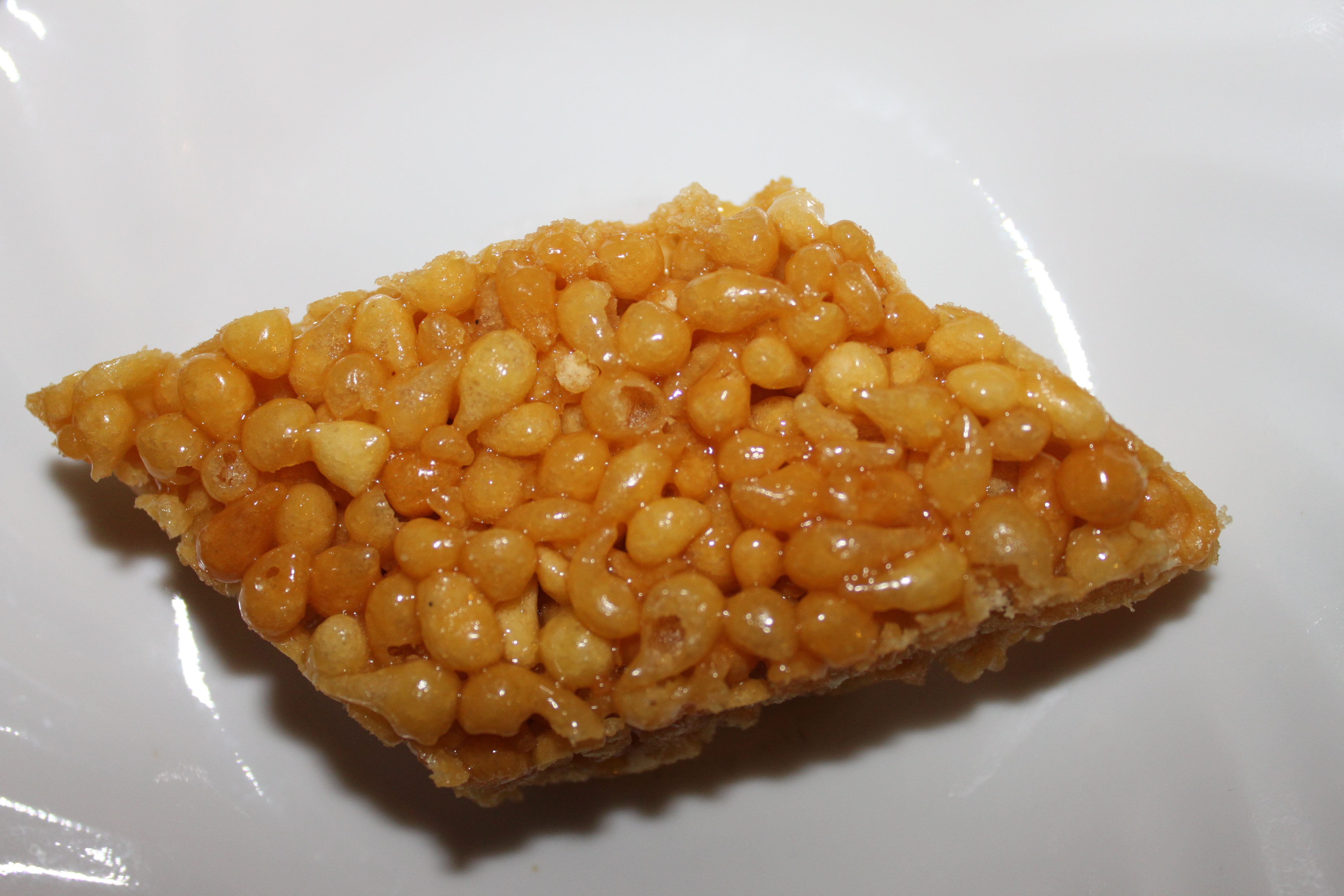 Boondi Mithai, A Common Andhra Indian Festival Sweet Snack